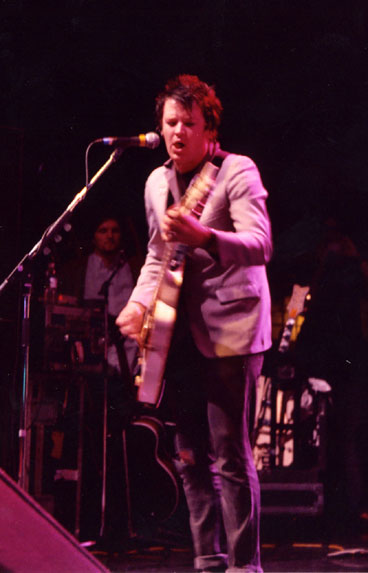 Chris Cheney